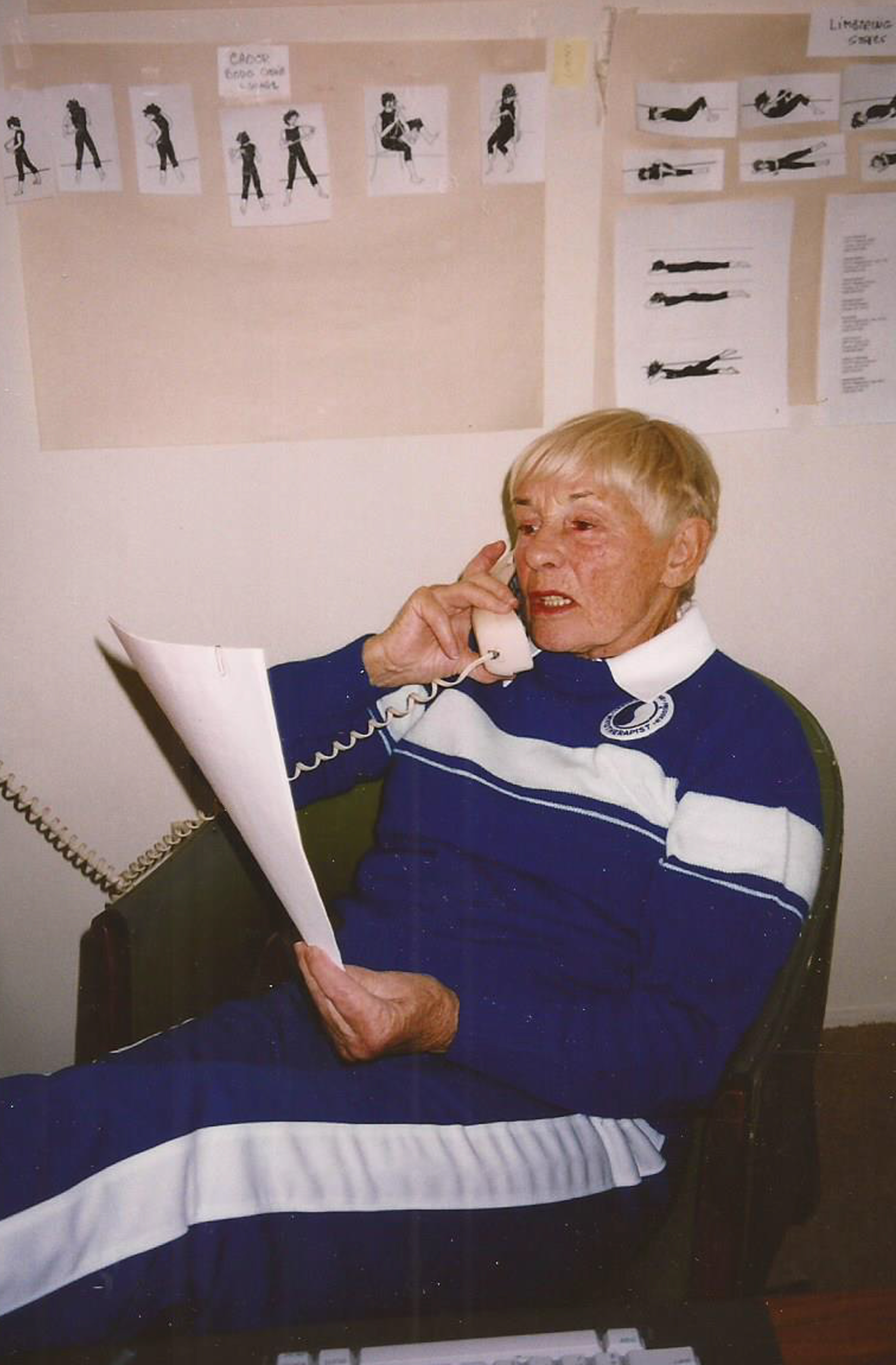 Bonnie Prudden in her office in Tucson, Arizona, 1996